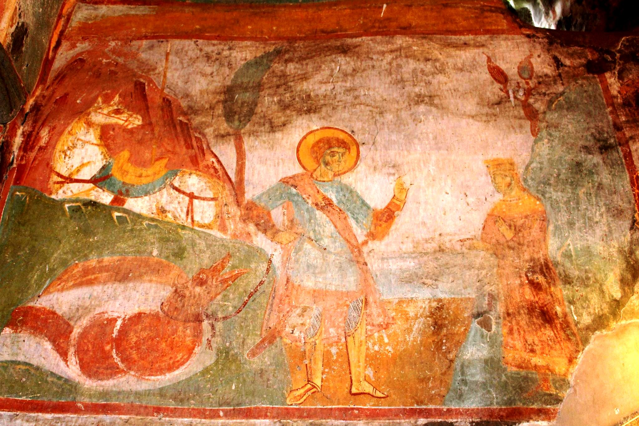 A 13th-14th-century fresco depicting St. George bring a defeated dragon to a princess. Achi Monastery, Georgia.